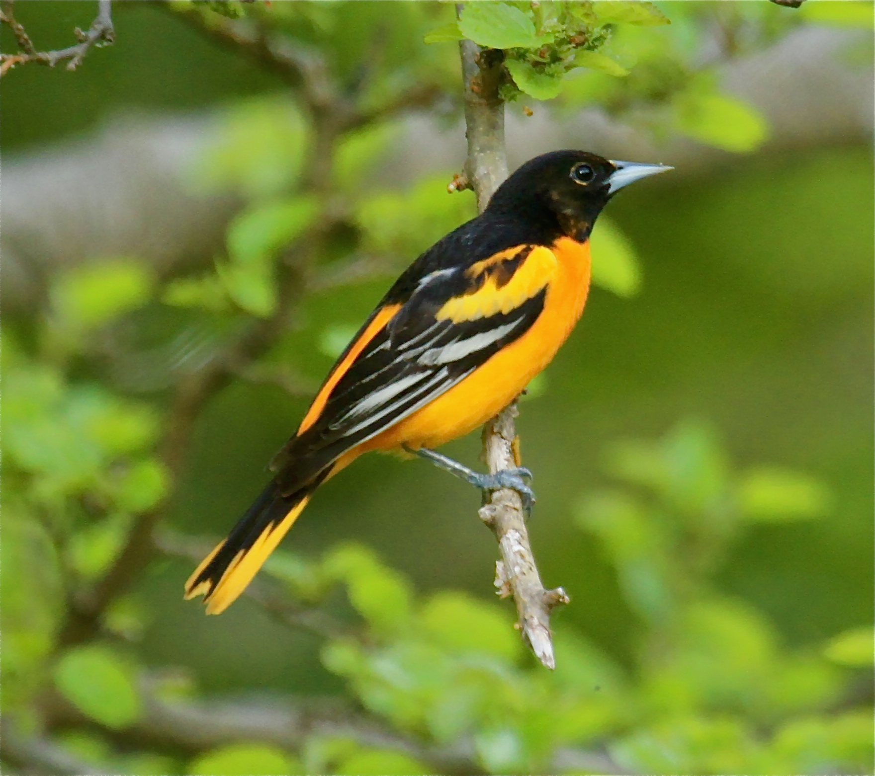 Magee Marsh - Ohio Show dorsal side.